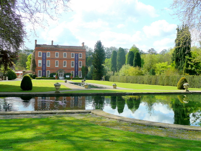 Burford House and formal gardens